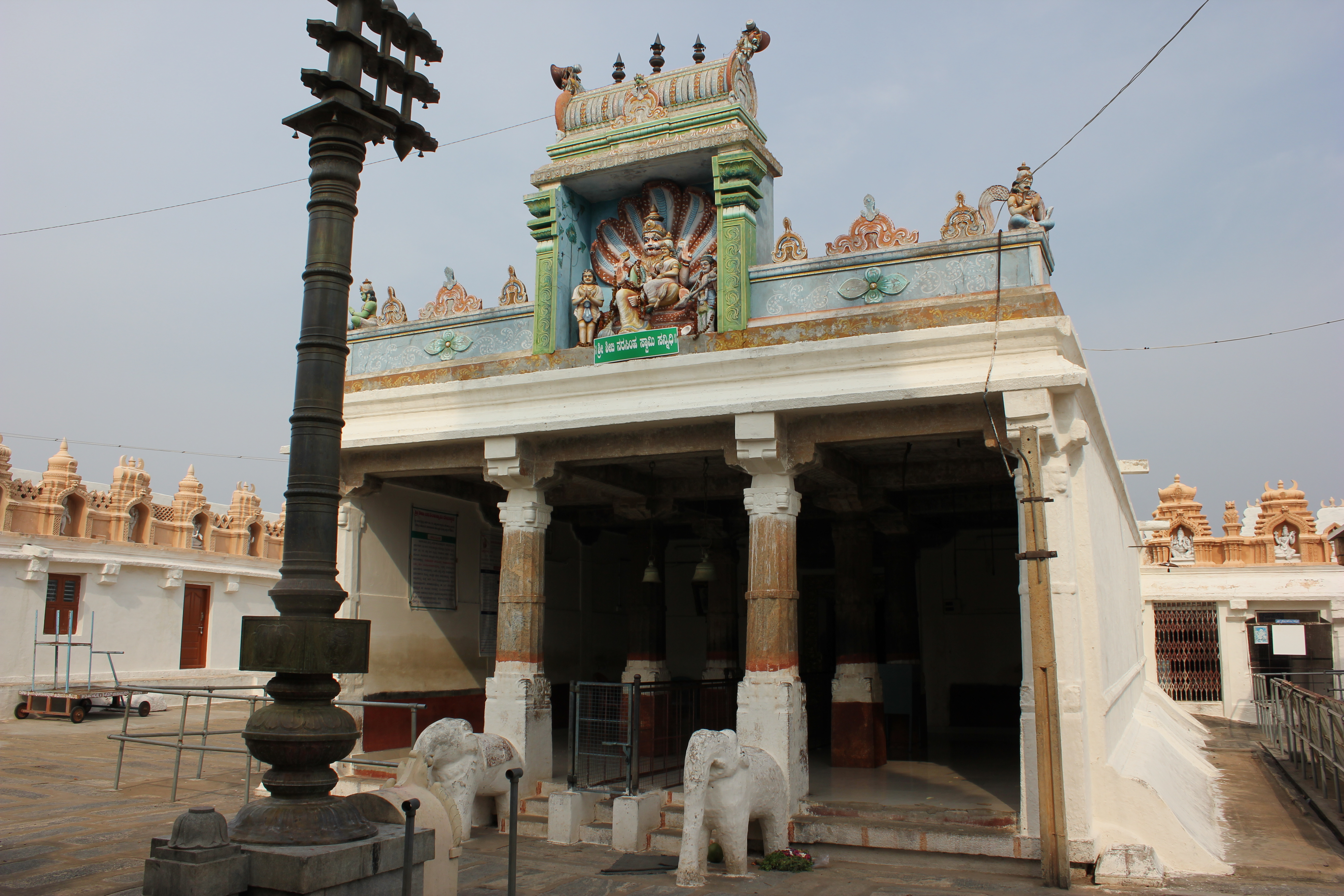 This photograph was taken at the Narasimha Swamy temple which dates to the rule of the Mysore regent Tipu Sultan, in Sira town, Karnataka state, India